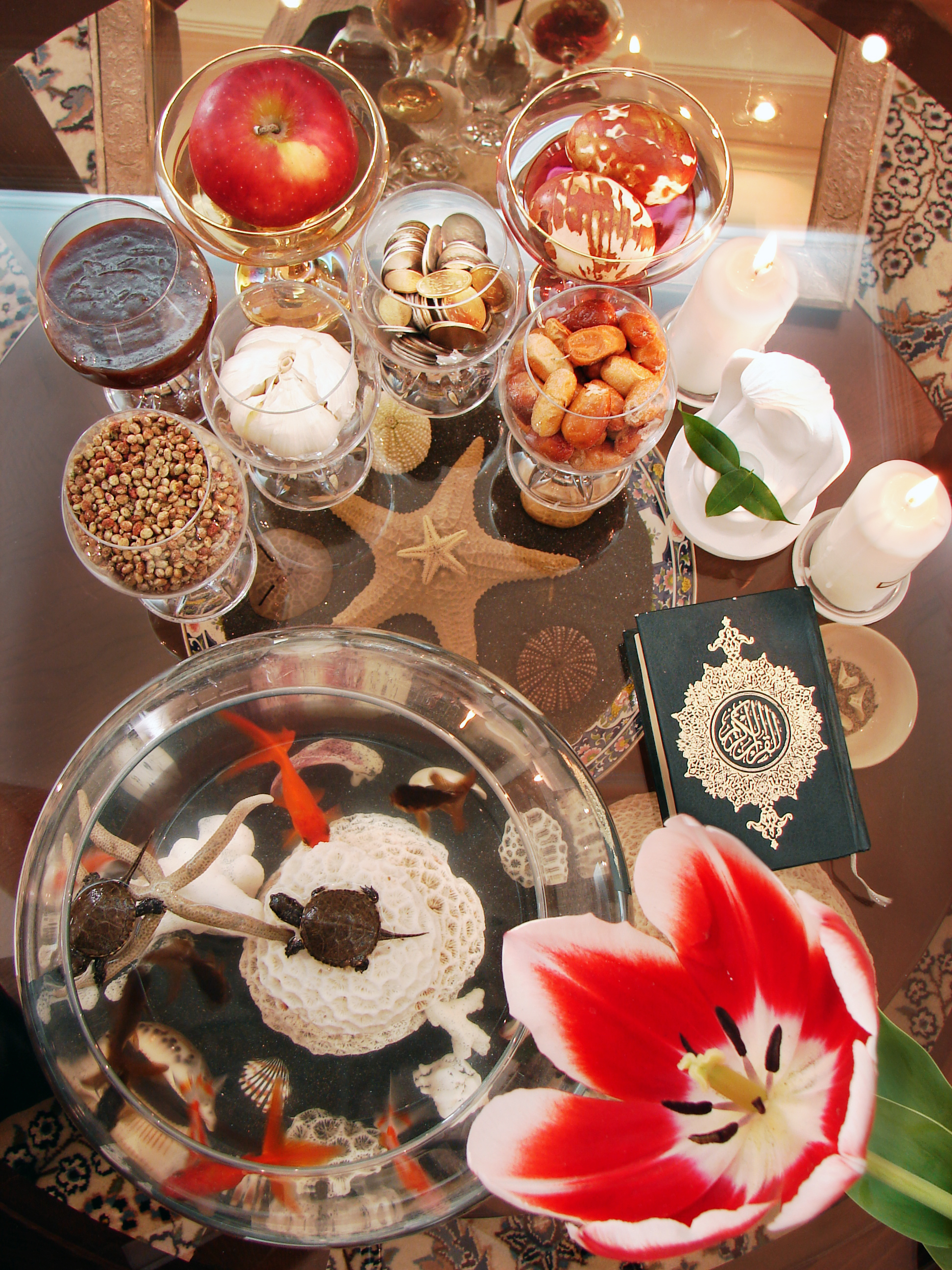 Haft sîn (Persian: هفت سین) or the seven 'S's is a major tradition of Norouz, the traditional Iranian new year. The haft sin items are: sabzeh - barley, sprouts growing in a dish, symbolizing rebirth samanu - a sweet pudding made from wheat germs, symbolizing affluence senjed - the dried fruit of the oleaster tree ("Persian olive", Elaeagnus angustifolia), symbolizing love sîr - garlic, symbolizing medicine sîb - apples, symbolizing beauty and health somaq - sumac berries, symbolizing (the color of) sunrise serkeh - vinegar, symbolizing age and patience See Haft sin table